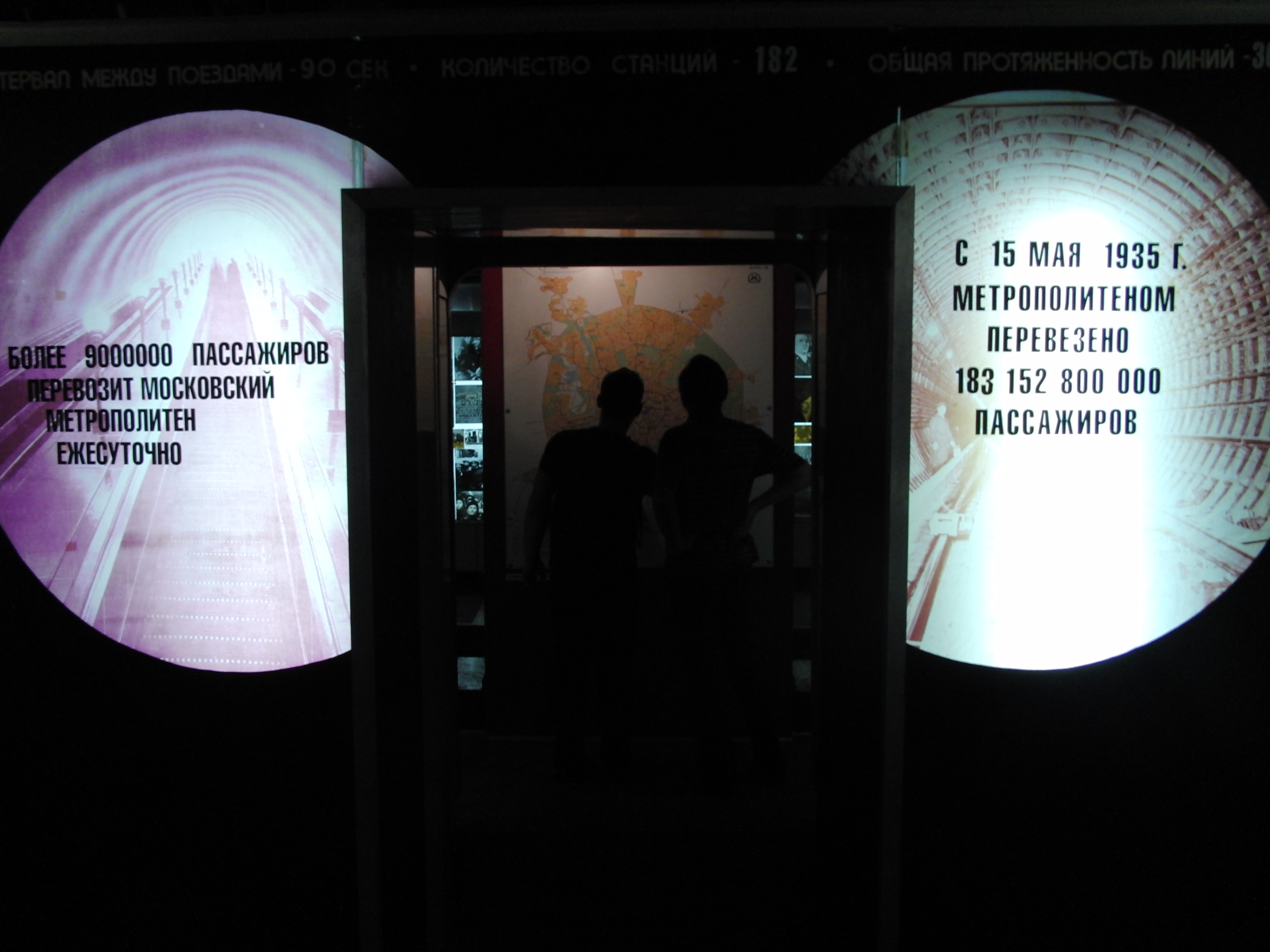 Sportivnaya, People's museum of Moscow Metro